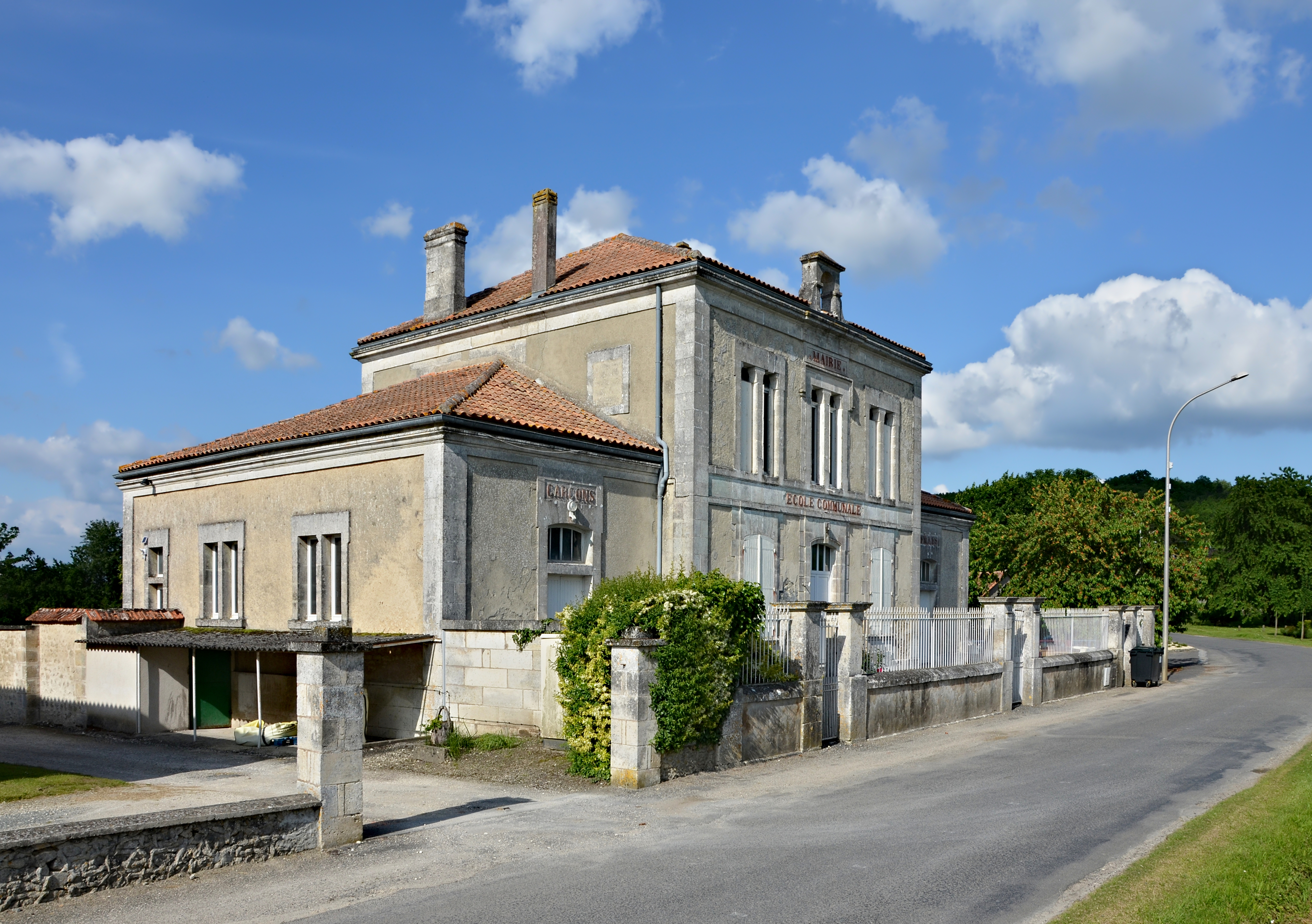 Former town hall-school (mid-19th century), Fouquebrune, Charente, France.